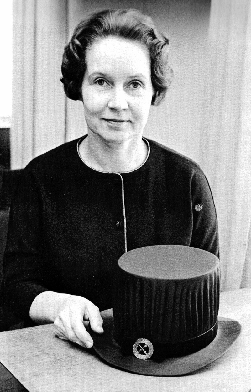 Photograph of the Finnish lawyer Inkeri Anttila (1916–2013). Photograph taken after her inaugural lecture as a newly appointed professor of criminal law at the University of Helsinki. She is shown here with her doctoral hat which she received after her doctoral disputation in 1946 at a promotion.